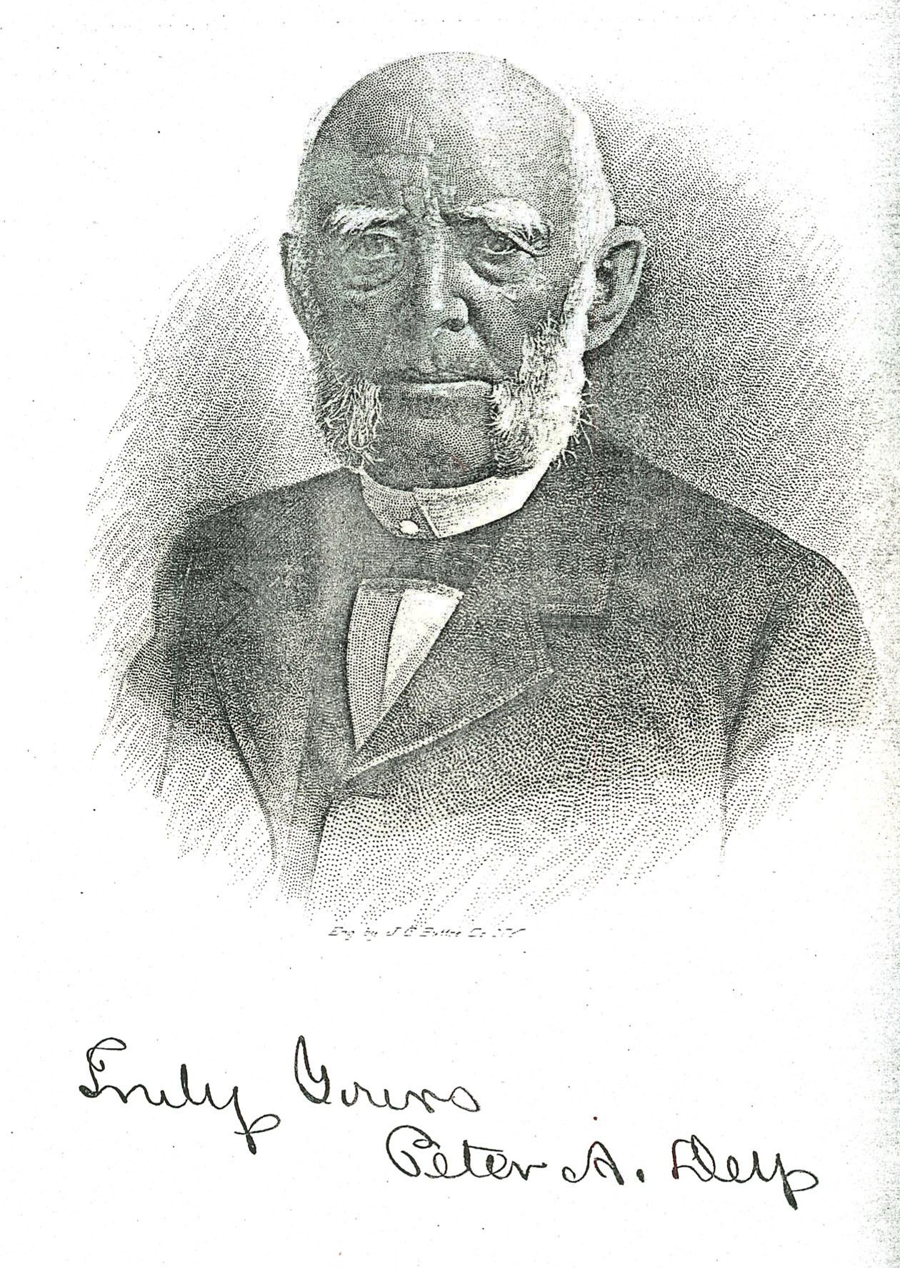 1911 Peter A Dey Obit, first chief engineer, Union Pacific Railroad (1863-1864)